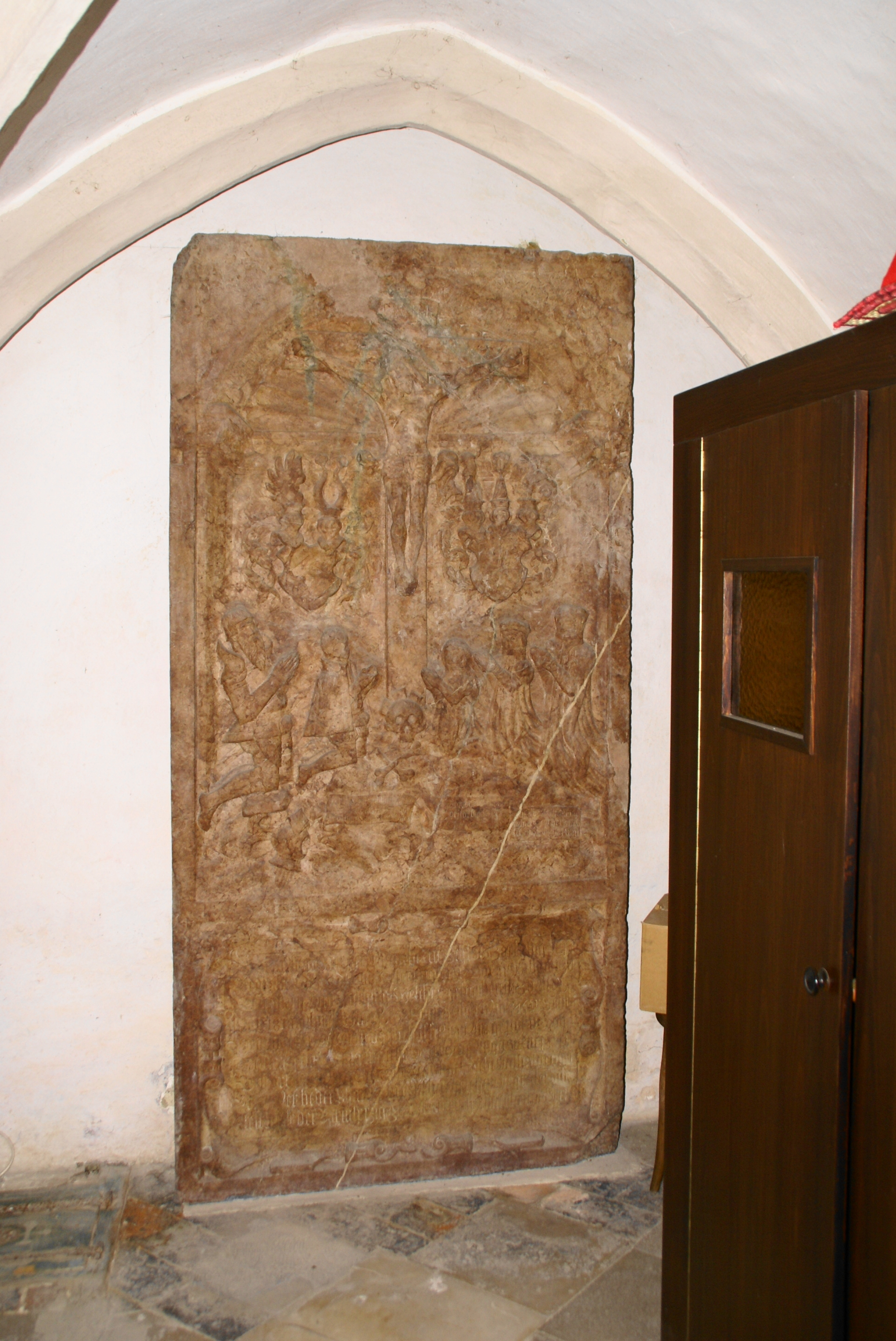 gotik church from kleinhain, near st.pölten, lower austria, origin 11./12. century, tombstone of earl JÖRG GRABNER, died 1541-08-19